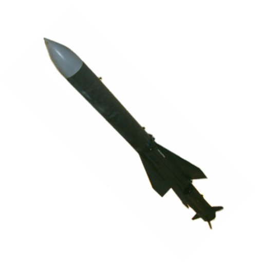 An MM38 "ship-borne" Exocet missile in the Imperial War Museum, London.